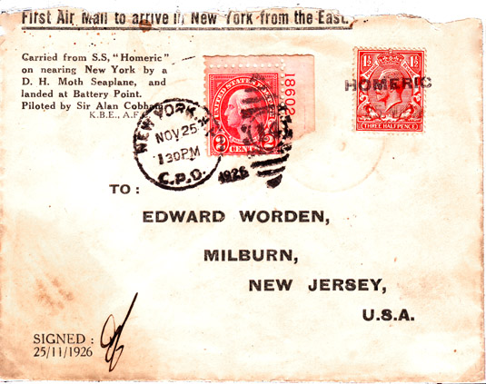 Cover attempted to be flown by Sir Alan Cobham from the SS Homeric to New York, November 25, 1926. (The Cooper Collections) Photograph by uploader.